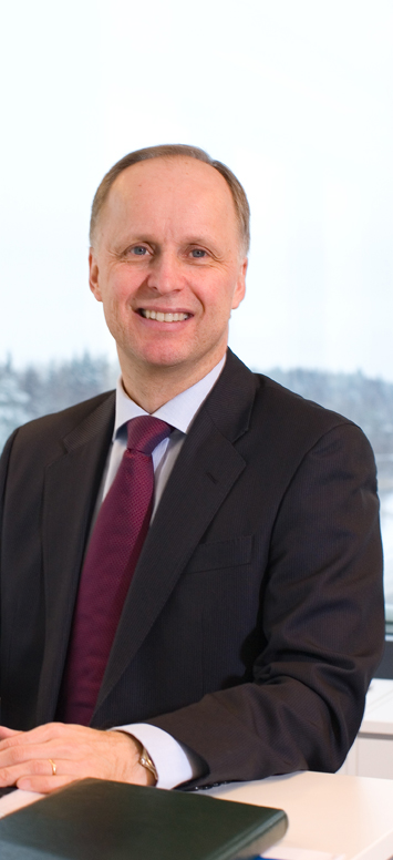 Kimmo Alkio, CEO, Tieto Corporation